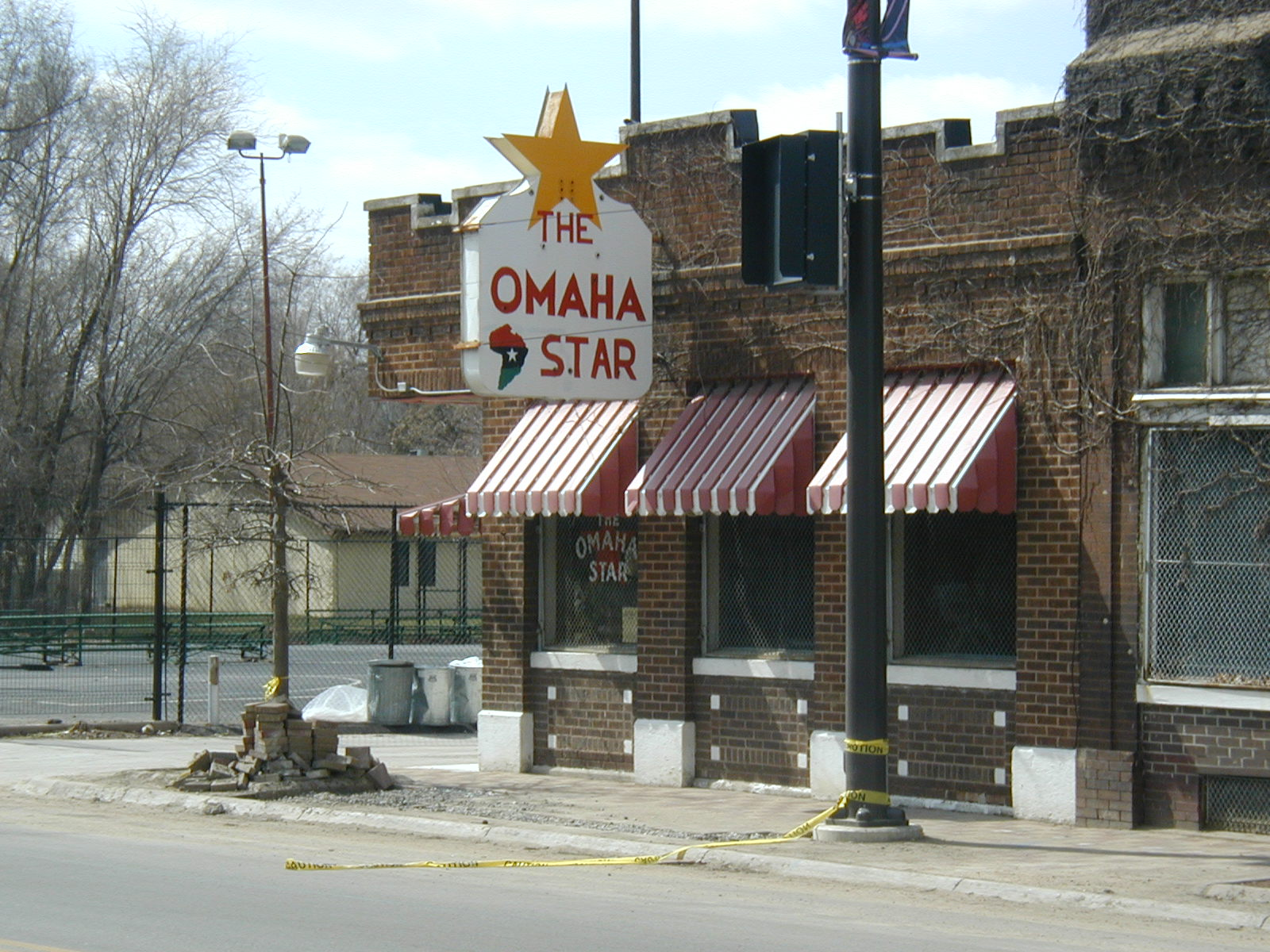 The Omaha Star building taken from northeast corner of North 24th and Grant Streets in Omaha, Nebraska.